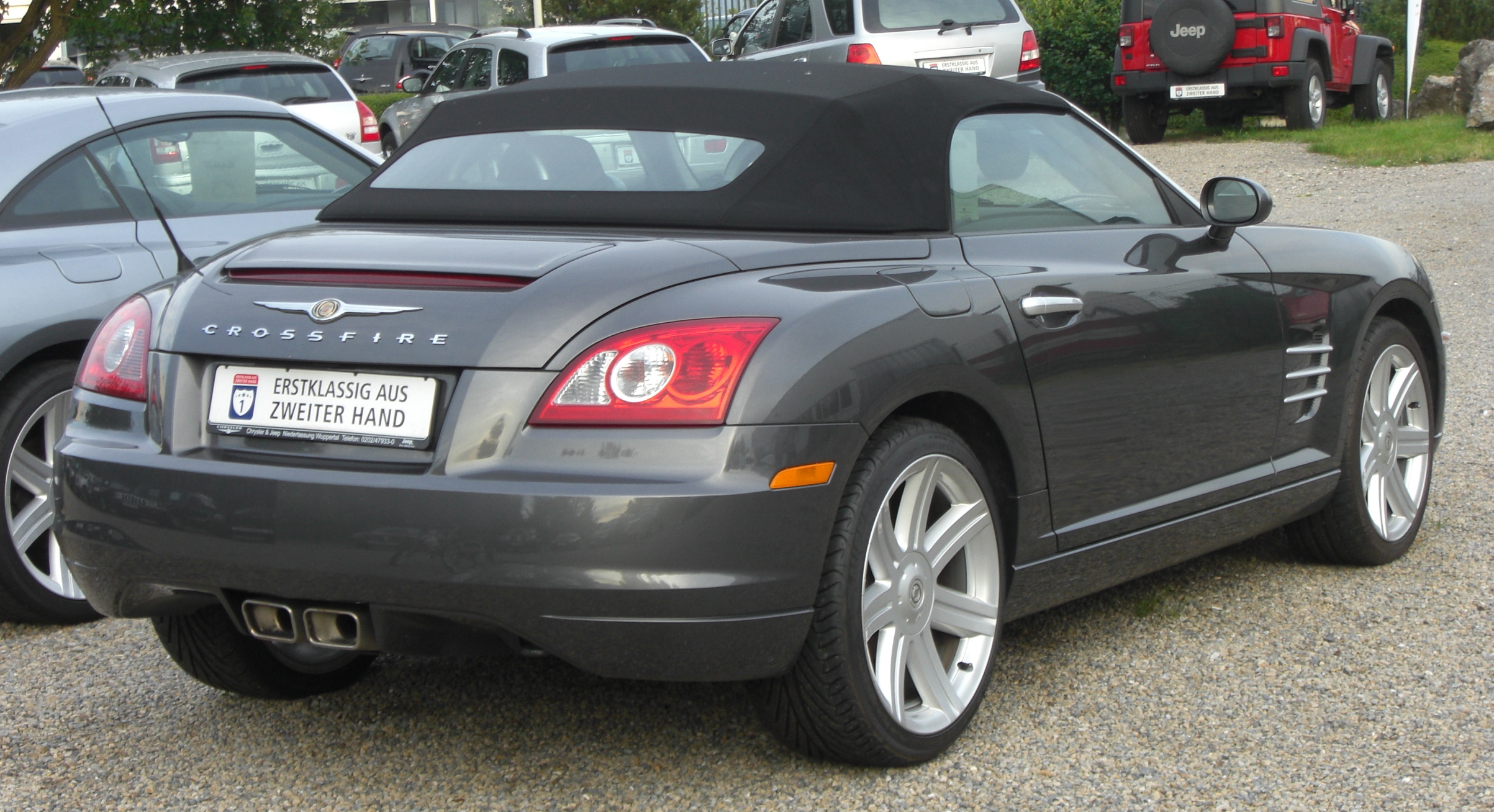 Chrysler Crossfire Roadster